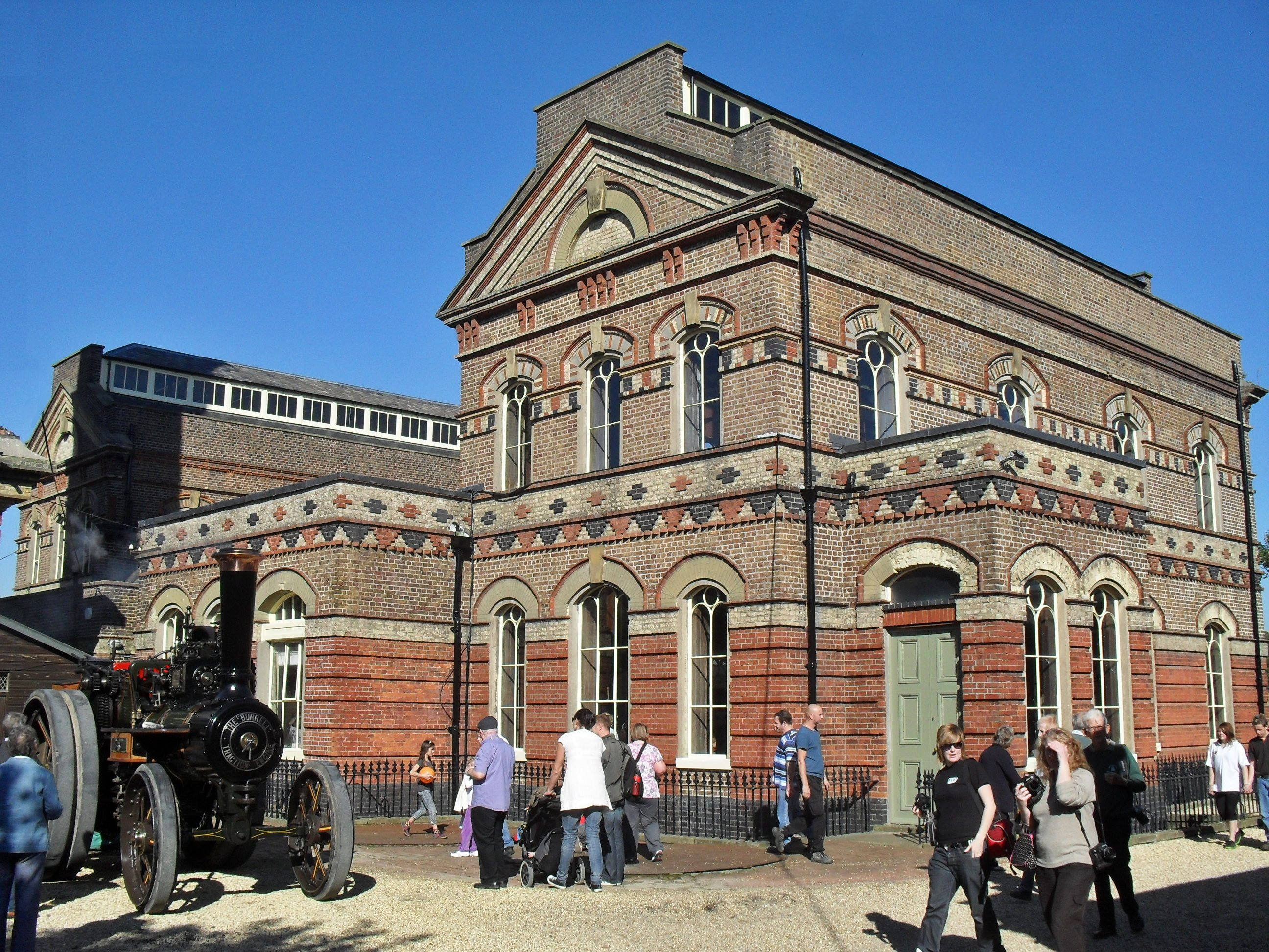 Former Boiler House and Engine Room at the British Engineerium, The Droveway, West Blatchington, Hove, City of Brighton and Hove, England. The main part of the former Goldstone Pumping Station, a waterworks built in 1866. Now a museum; pictured here on a rare open day during a period of long-term renovation. Listed at Grade II* by English Heritage (IoE Code 365677)